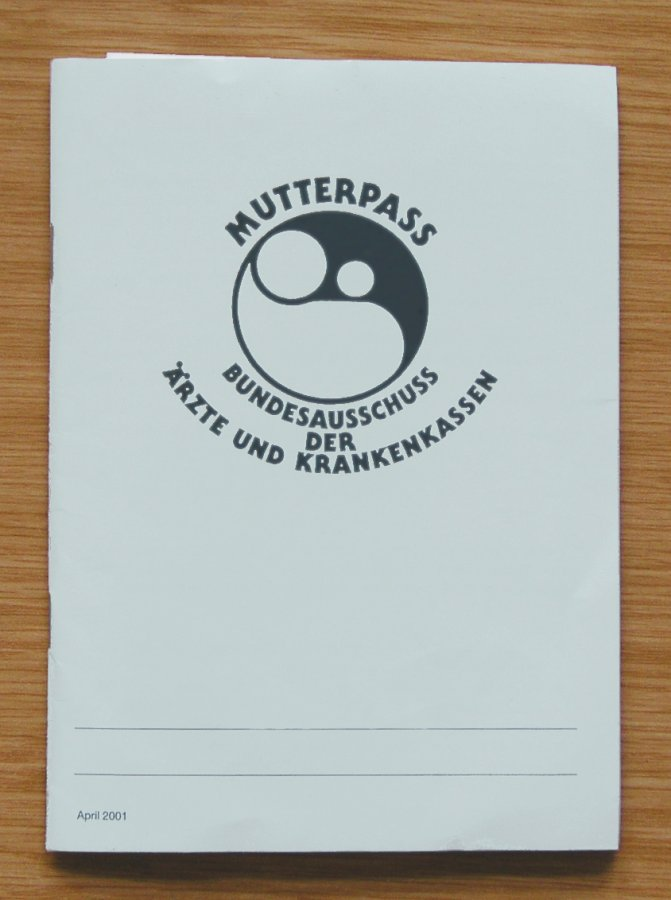 Description: a so-called "Mutterpass" used for saving information about pregnancy in Germany Author: Erik Streb Source: photo taken by me Date: 2006-04-14 Permissions: see license